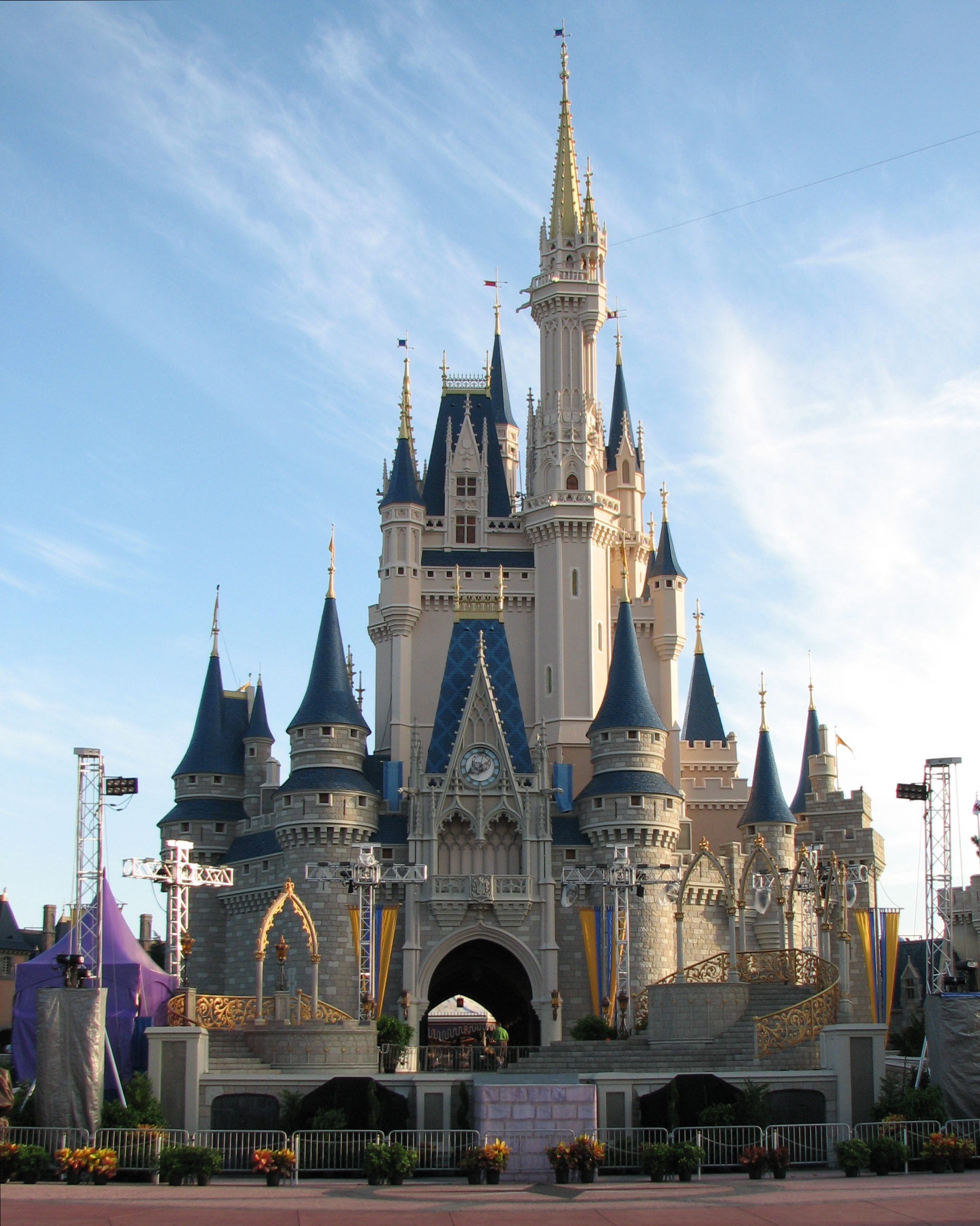 Cinderella Castle in the Magic Kingdom at Walt Disney World.